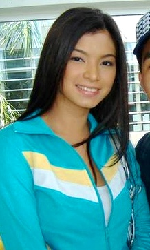 A photo of Angel Locsin taken at the Manila International Airport in June 2007.